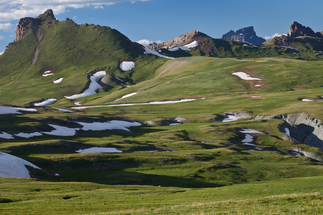 The Alpine Loop is one of America’s Back-Country Byways, providing off-the-beaten-path trips. Different routes allow you to take short trips, half-day trips, or even multi-day trips with time to camp, fish and explore along the way. A part of the National Conservation Lands, BLM Colorado wilderness areas along the loop - such Handies Peak, Red Cloud Peak, Uncompahgre and Powderhorn pictured here - offer solitude and rugged, stunning views. Photo by Bob Wick, BLM